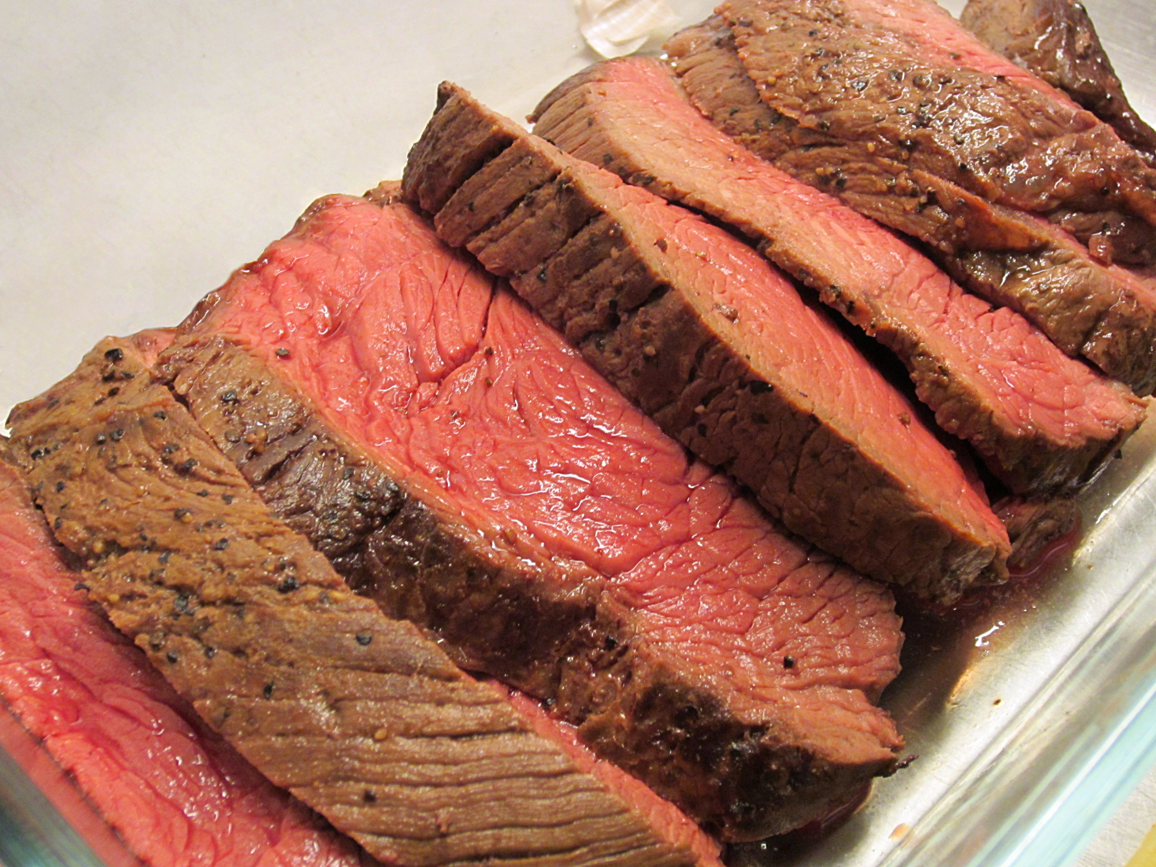 Rostas, ready and served.